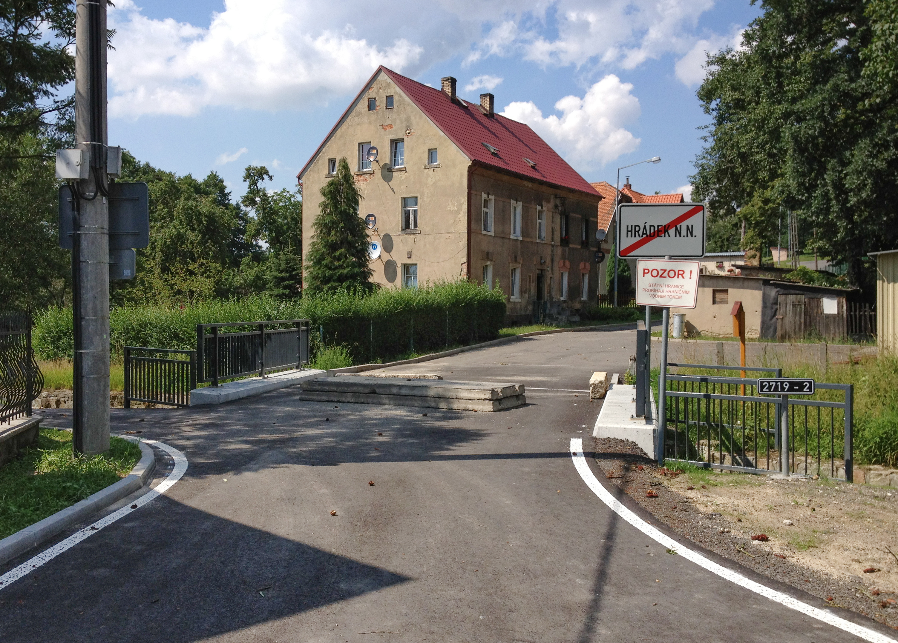 Border bridge connecting Oldrichov (Ullersdorf) in the Czech Republic with Kopaczow (Oberullersdorf) in Poland. View from the Czech side towards Poland.